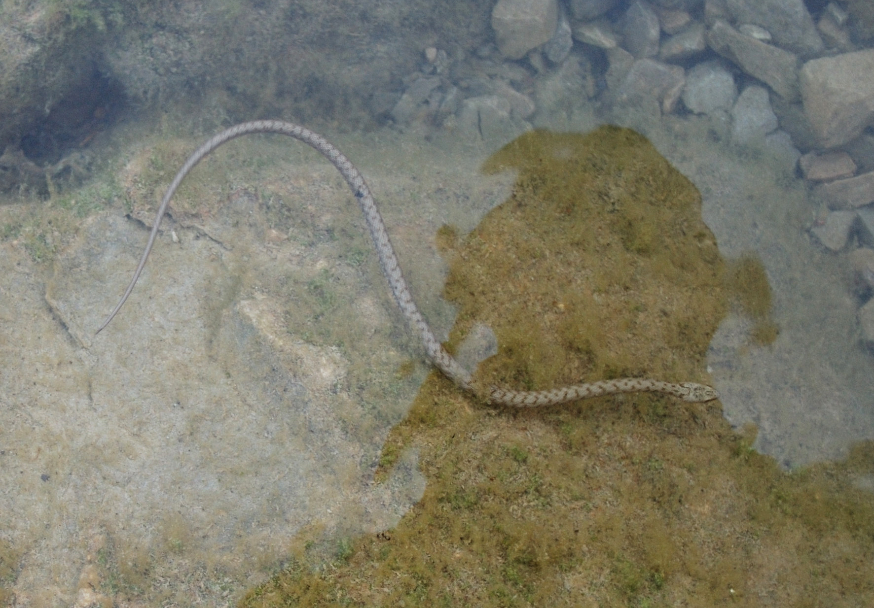 Young Dice snake, Natrix tessellata, in the Lake Garda. (Cropped version of File:Unbekannte Schlange im Gardasee.JPG)